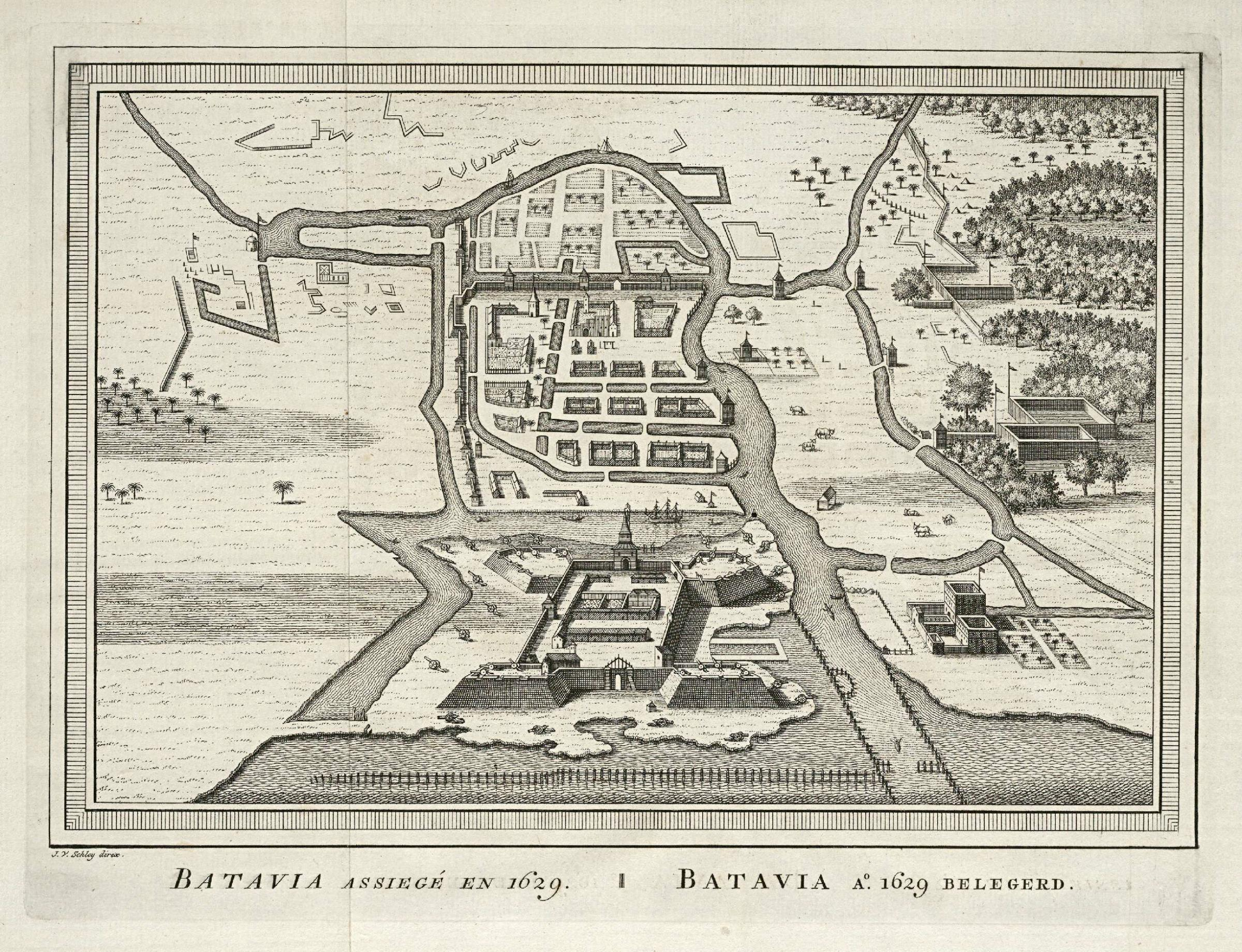 Bird's eye view map of the siege of Batavia in 1629. Batavia Assiegé en 1629 / Batavia Ao: 1629 belegerd. Cf. Westfriesmuseum inv. nr. 15242, Fries Museum, print lacking inventory number and inscribed: 'Batavia Folij. 113' and Rijksmuseum Amsterdam, inv. nr. RP-P-OB-75-46.